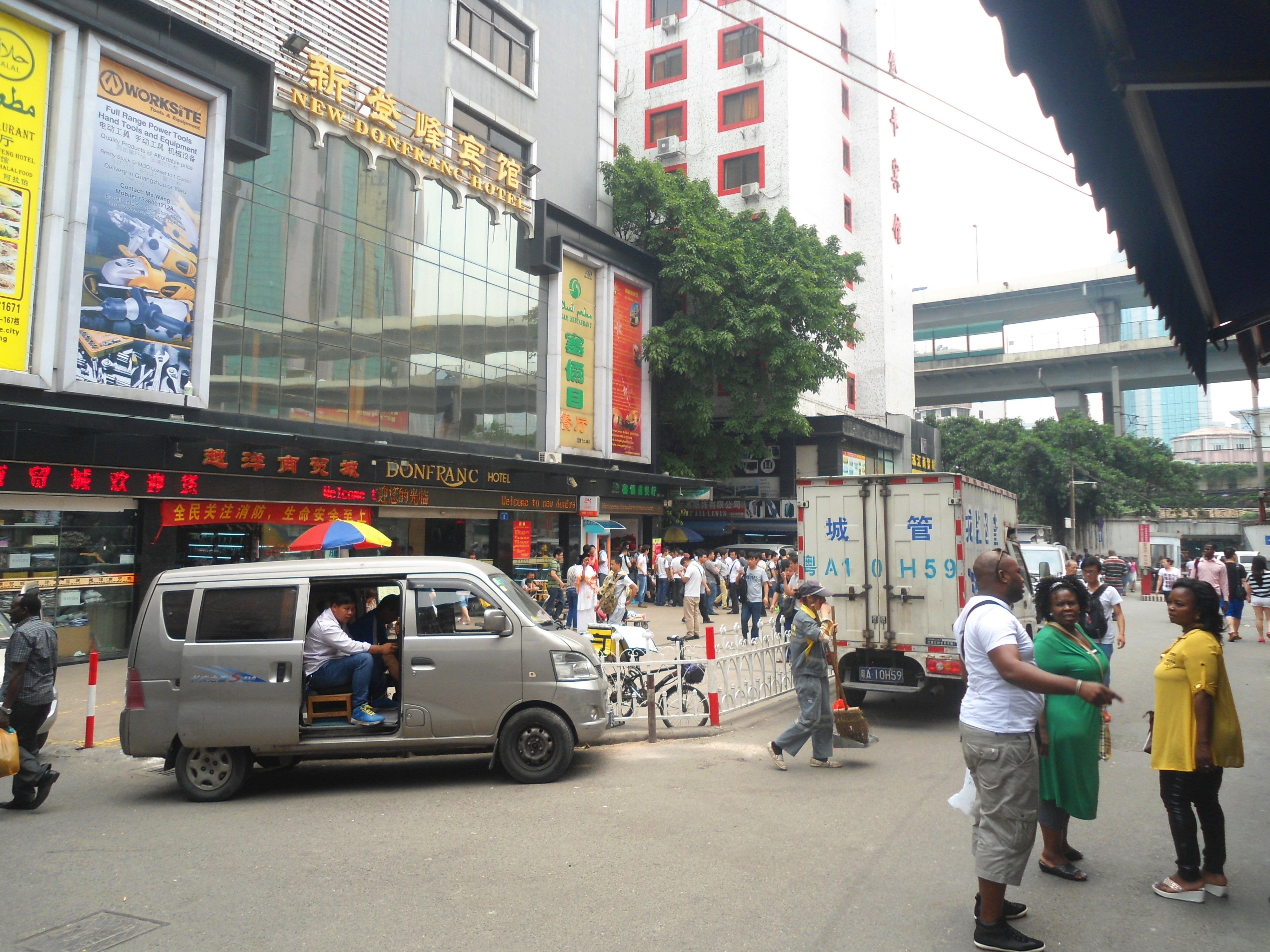 The southern end of Baohan Straight Street (facing south), the heart of the African area, Dengfeng Subdistrict, Yuexiu District, Guangzhou, Guangdong, China